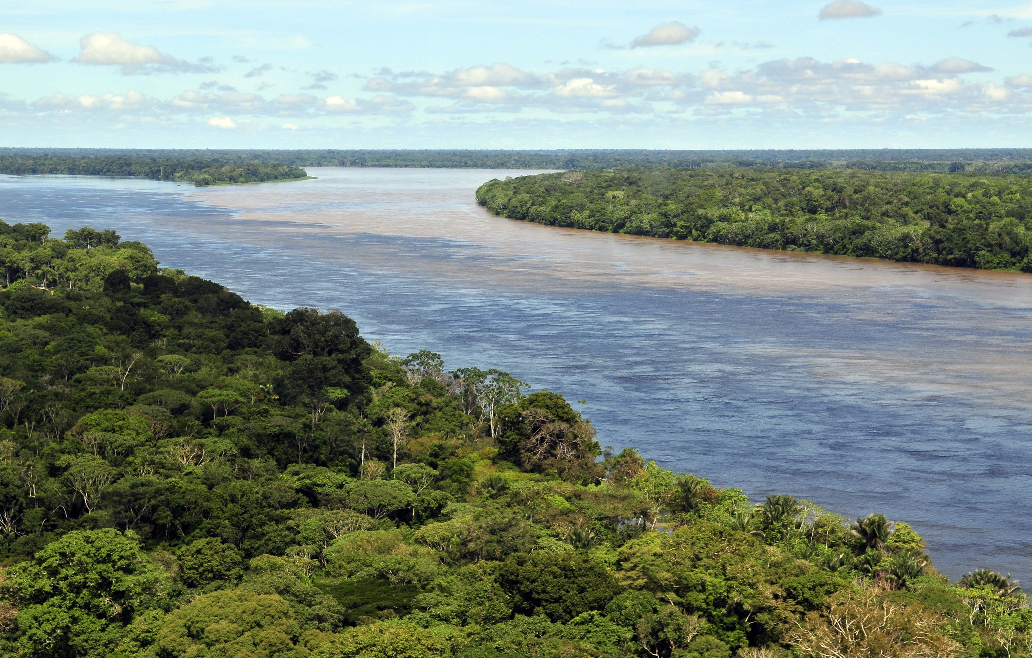 Pic by Neil Palmer (CIAT). Aerial view of the Amazon Rainforest, near Manaus, the capital of the Brazilian state of Amazonas. Please credit accordingly.